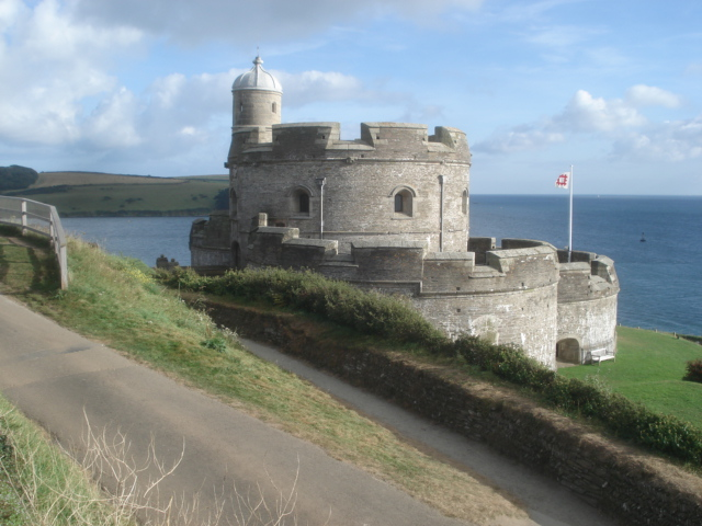 St Mawes Castle Looking southwards from near the car park. The best preserved and most elaborately decorated of Henry VIII’s coastal fortresses, St Mawes was built to counter invasion threats from France and Spain. Its counterpart, Pendennis, is on the other side of the Fal estuary. The clover-leaf shaped fort fell easily to landward attack by Parliamentarian forces in 1646 and was not properly refortified until the late 19th and early 20th centuries.